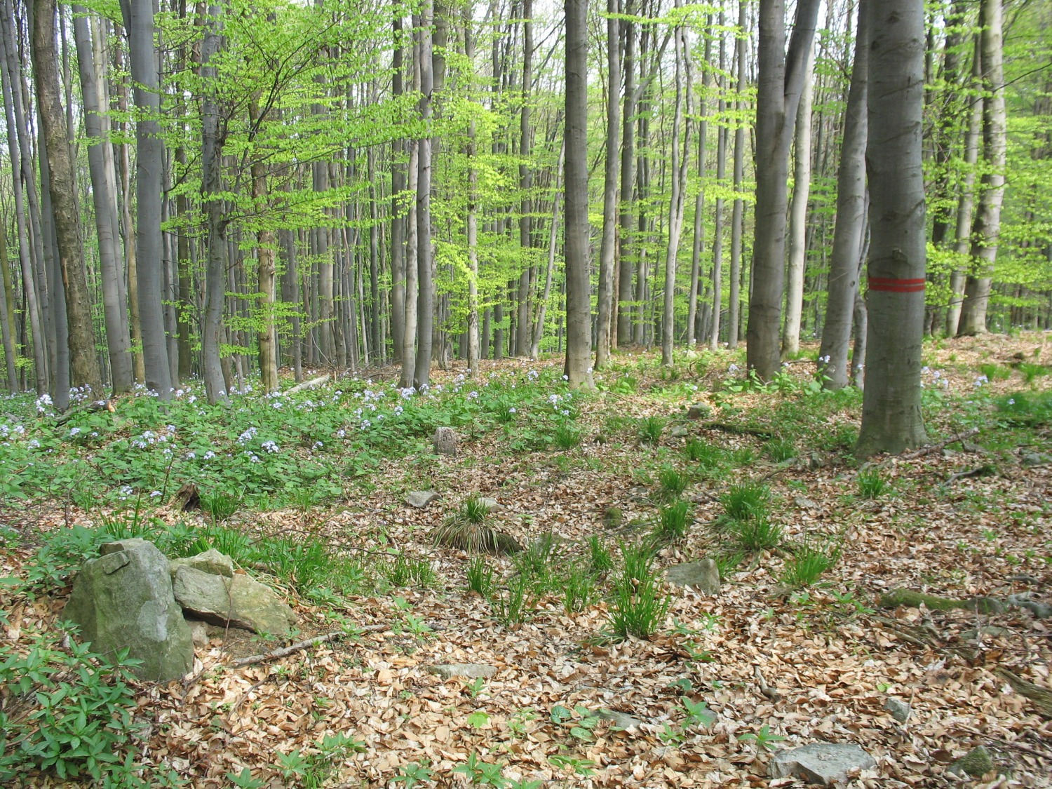 Natural reserve Vysoká Běta near Lipanovice, České Budějovice District, Czech Republic